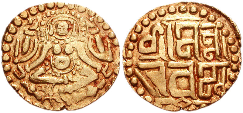 Paramaras of Malwa King Naravarman Circa 1094-1133. V Dinar (21mm, 4.03 g, 12h). Goddess Lakshmi seated facing / Devanagari legend.